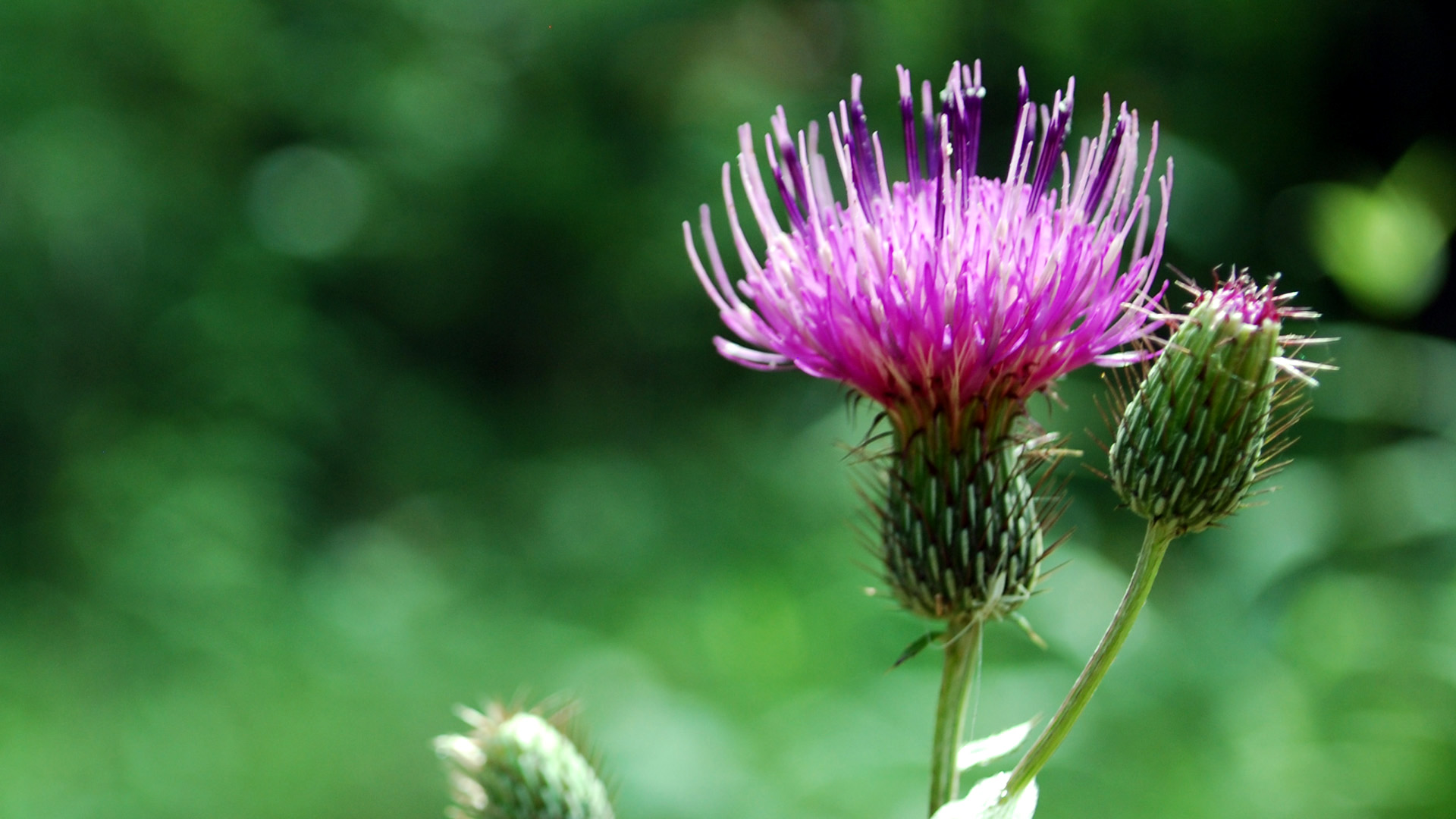 Field thistle in spring taken near Scotland, Arkansas, U.S.A.